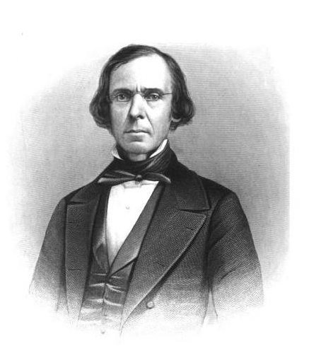 Portrait of Hugh Alfred Garland, from Livingston, John. Portraits of Eminent Americans Now Living: With Biographical And Historical Memoirs of Their Lives And Actions. New York: Cornish, Lamport & Co., 1853-54.